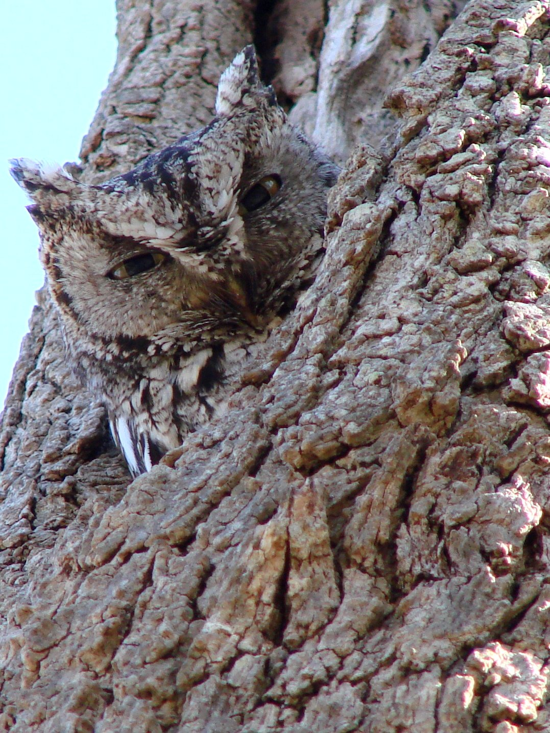 Megascops asio, Kerrville, Texas, USA.